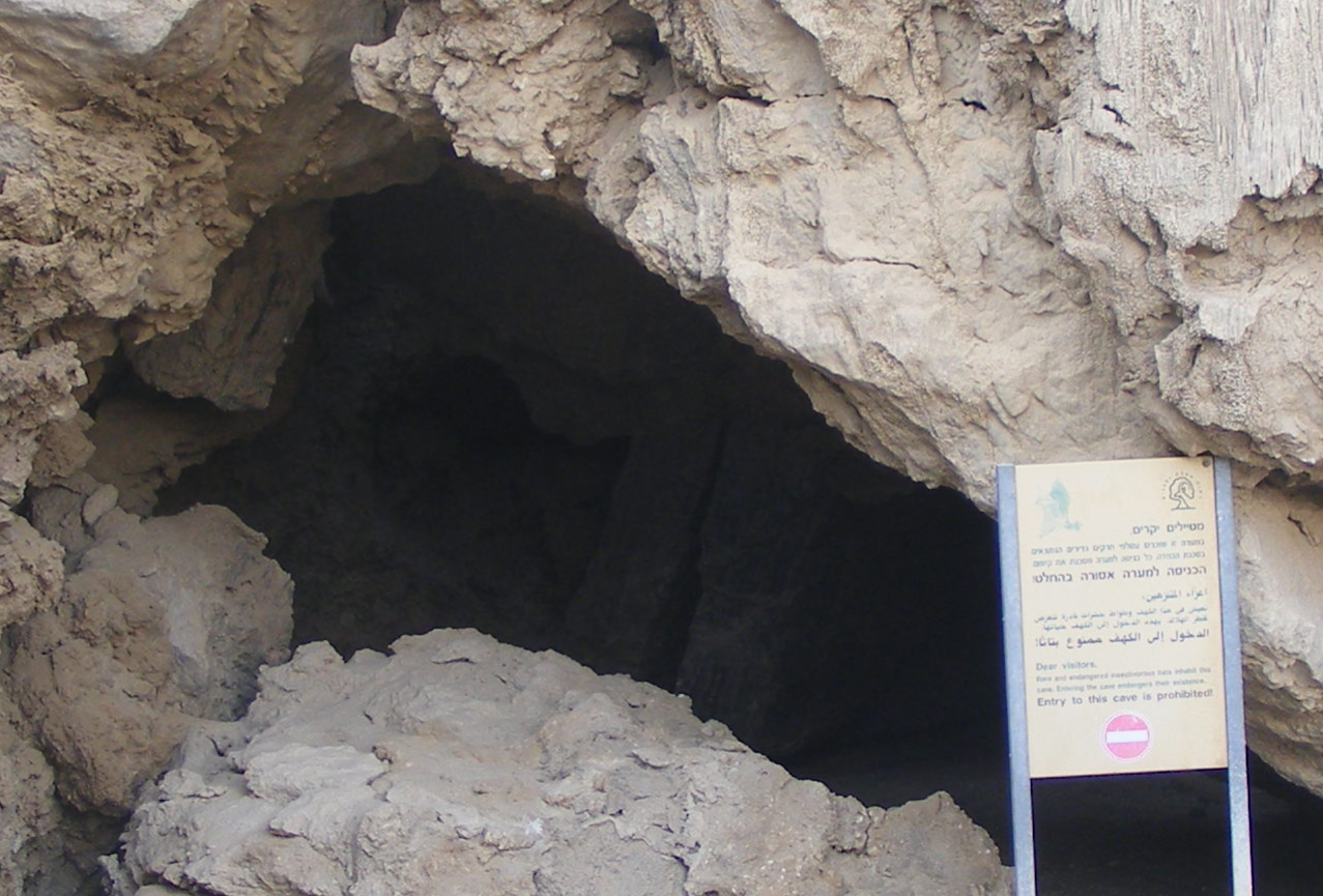 enter to malcham cave